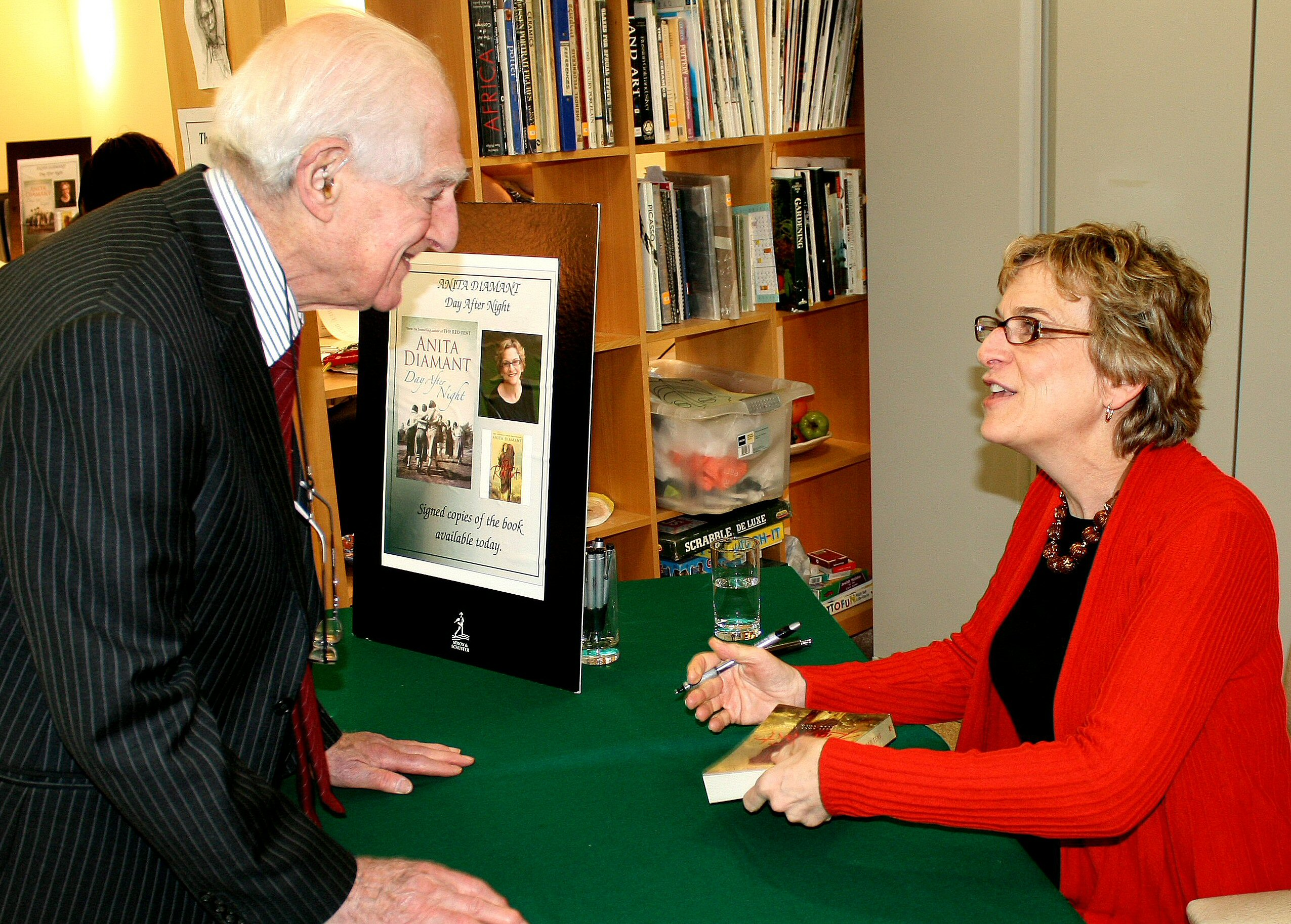 Anita Diamant at a booksigning at Nightingale House, London, March 2010